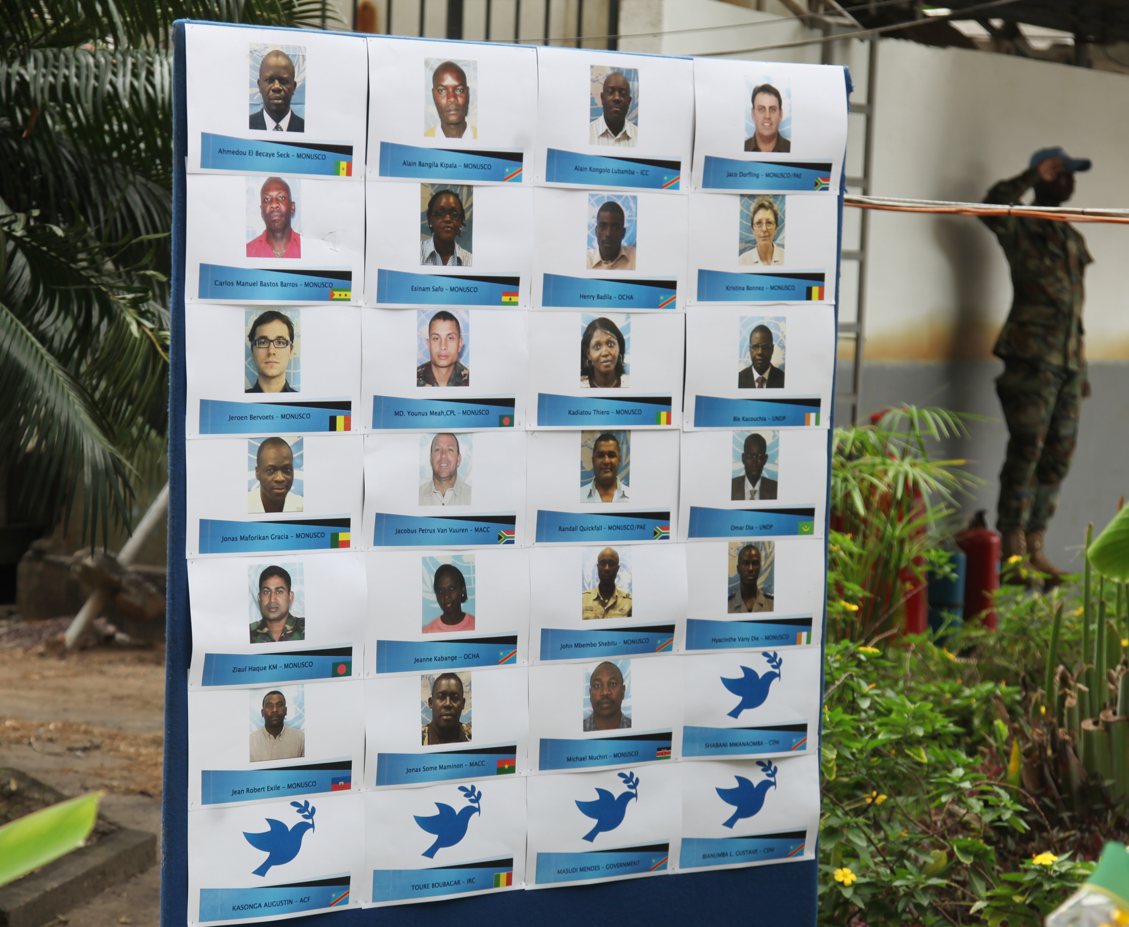 UN Plane crash ceremony is held in MONUSCO HQ in Kinshasa on the 4th of April 2012. MONUSCO/ Myriam Asmani